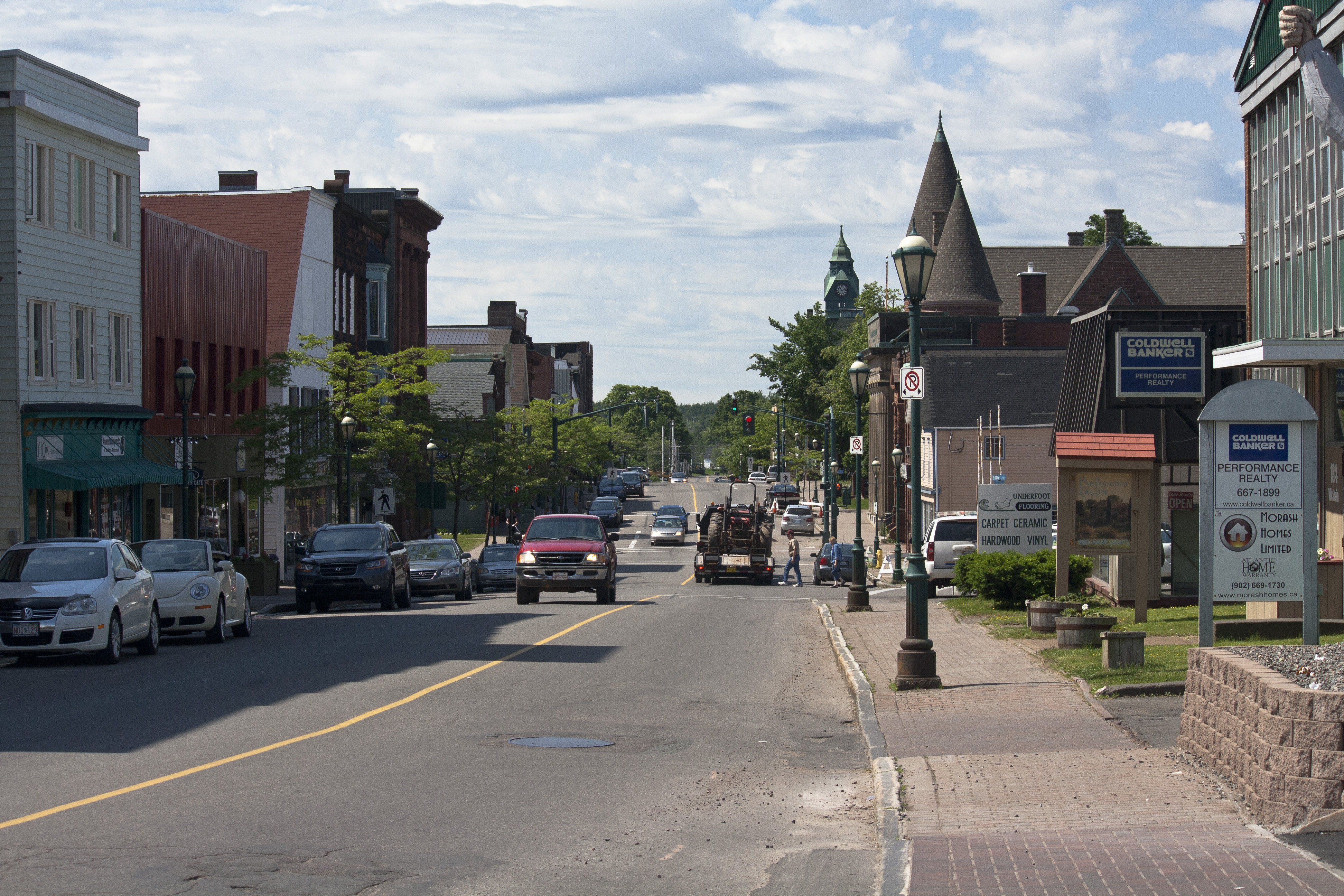 Downtown Amherst: West Victoria Street, Amherst, Nova Scotia, Canada